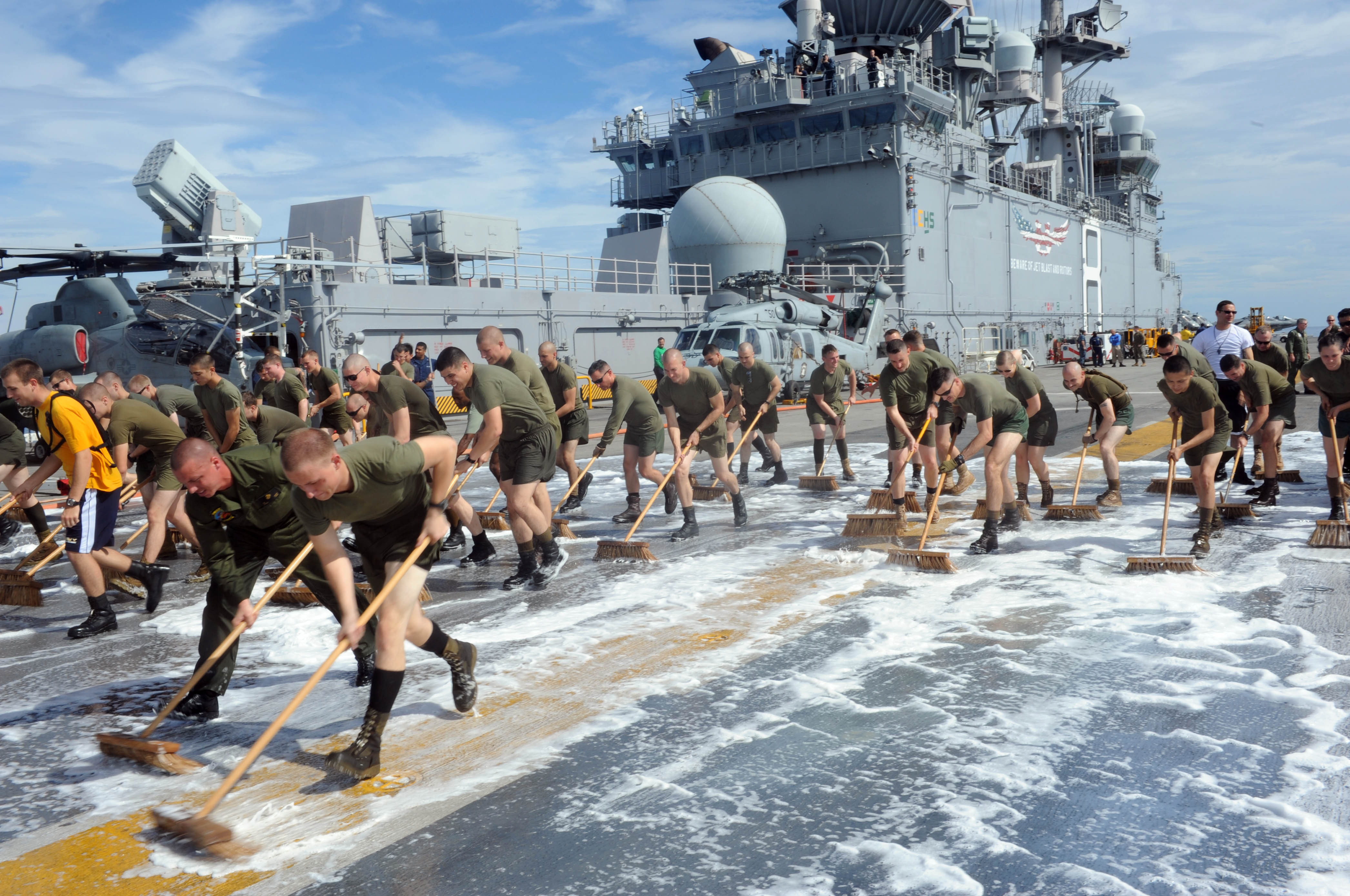 Sailors and Marines with the 11th Marine Expeditionary Unit (11th MEU), scrub down the flight deck of the amphibious assault ship USS Makin Island (LHD 8). Makin Island, the Navy's newest amphibious assault ship and the only U.S. Navy ship with a hybrid electric propulsion system, is on its first operational deployment. (U.S. Navy Photo by Mass Communication Specialist Seaman Apprentice Daniel Walls) Navy Visual News Date Taken:12.07.2011 Location:USS MAKIN ISLAND, USAFRICOM, AT SEA Related Photos